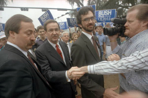 Conservative politician Pat Buchanan at the Capitol in Tallahassee, Florida.